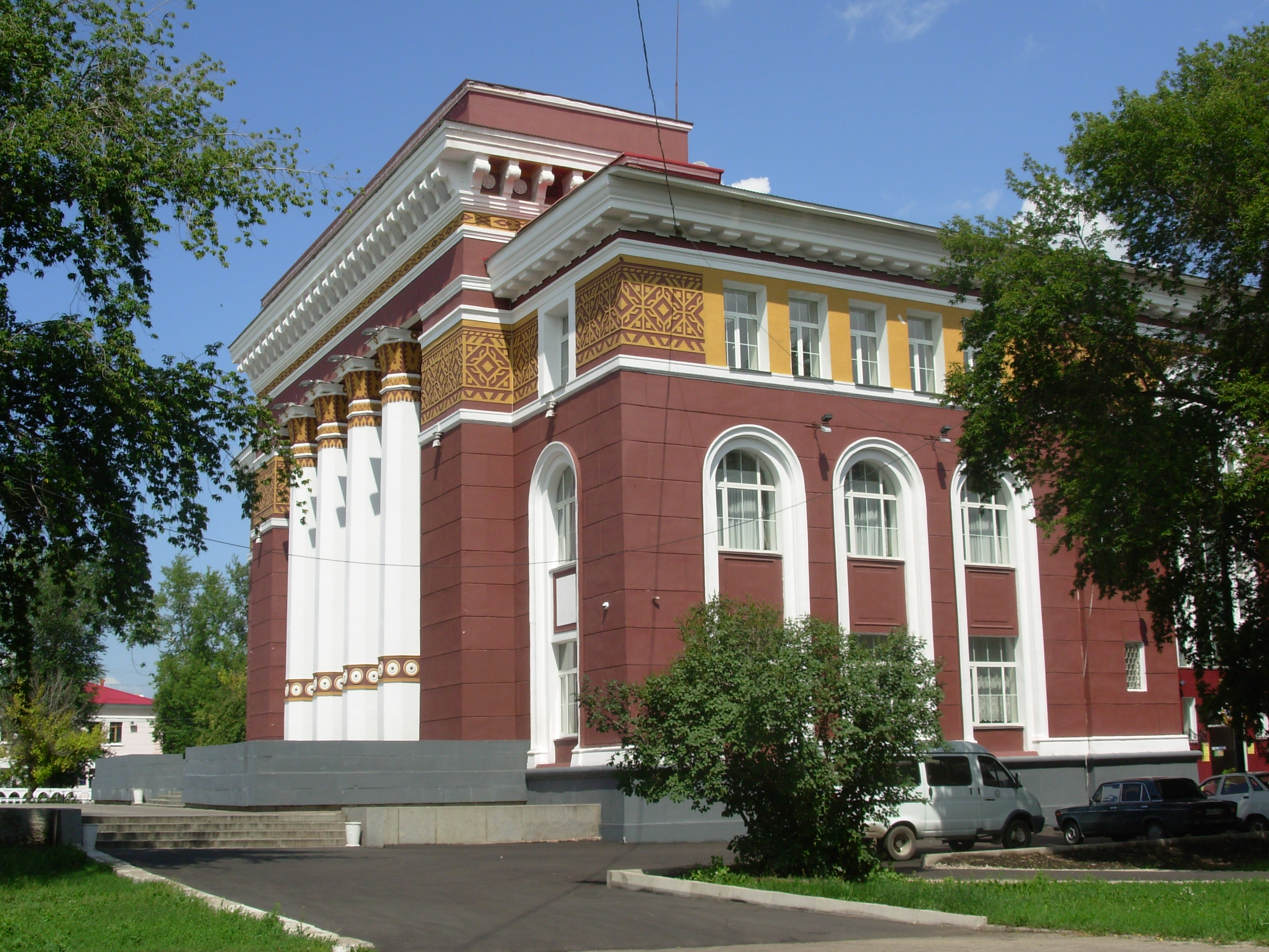 town